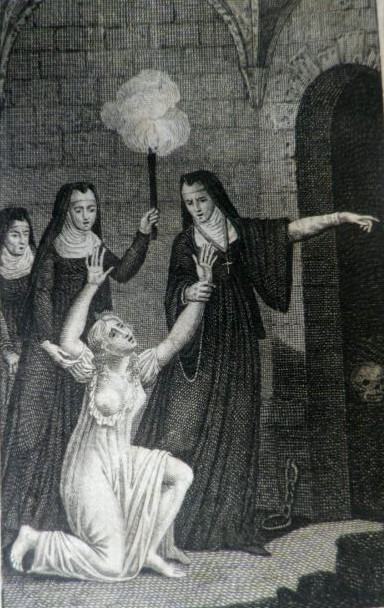 Illustration of the novel La Religieuse (Nun) of Denis Diderot, from Giraud 1797